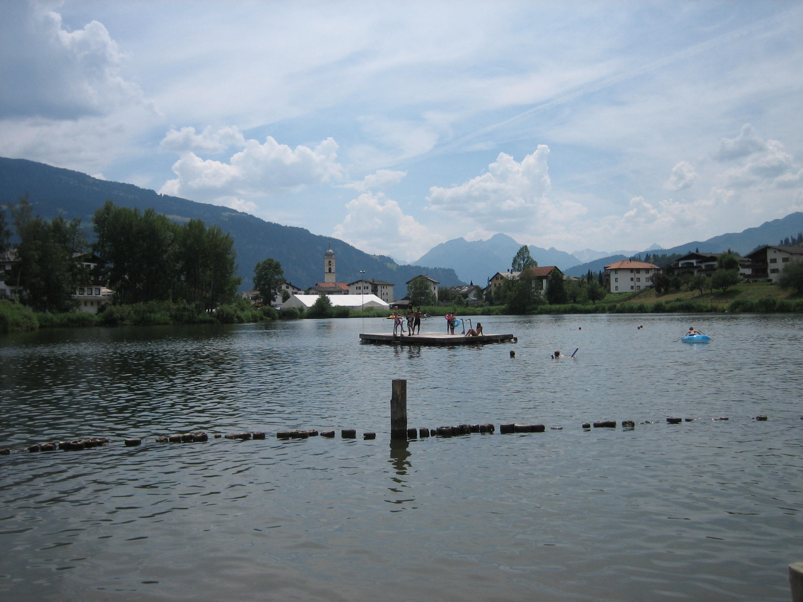 Laaxersee or Lai Grond, at Laax, Graubünden, Switzerland.